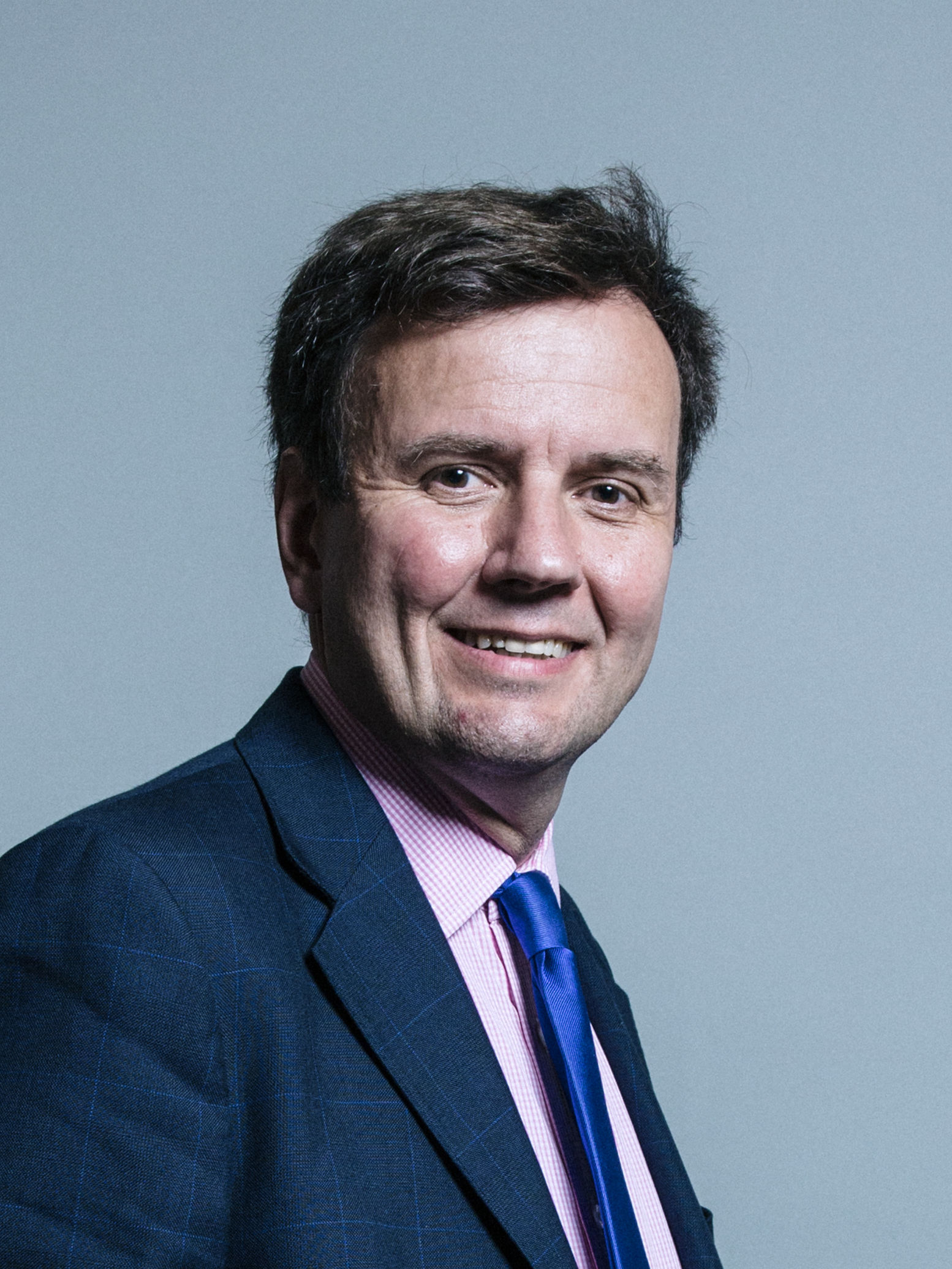 Official portrait of Greg Hands